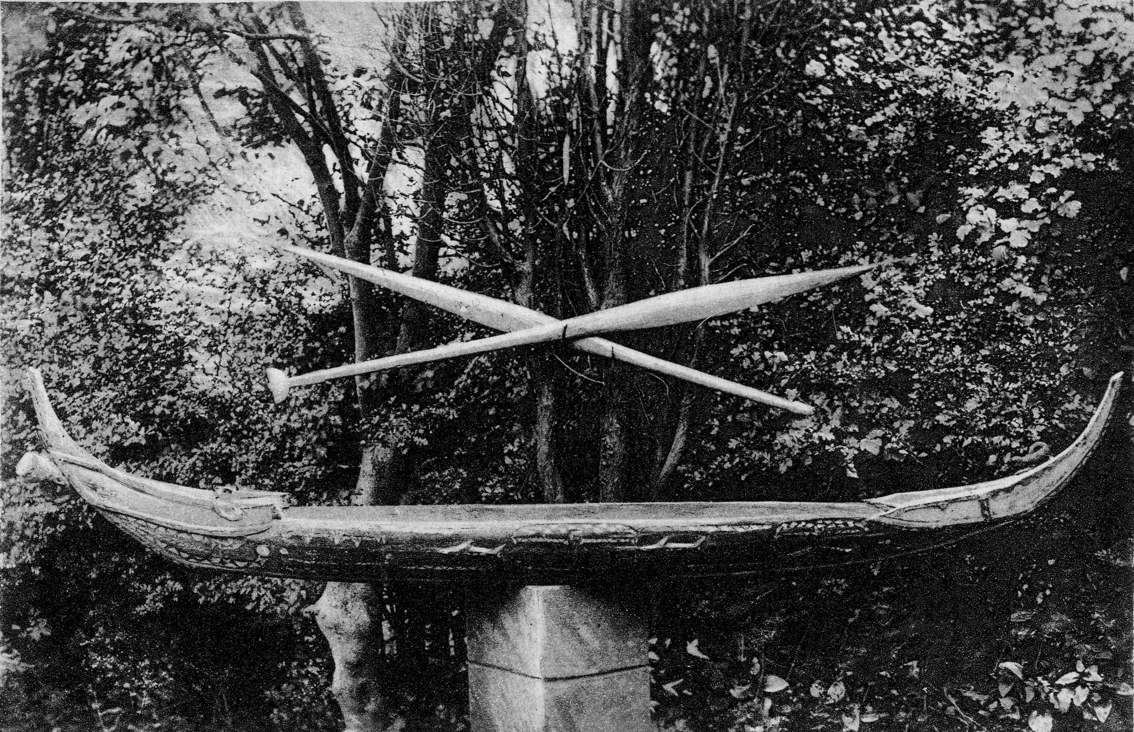 Model canoe made by a St. Christobal native